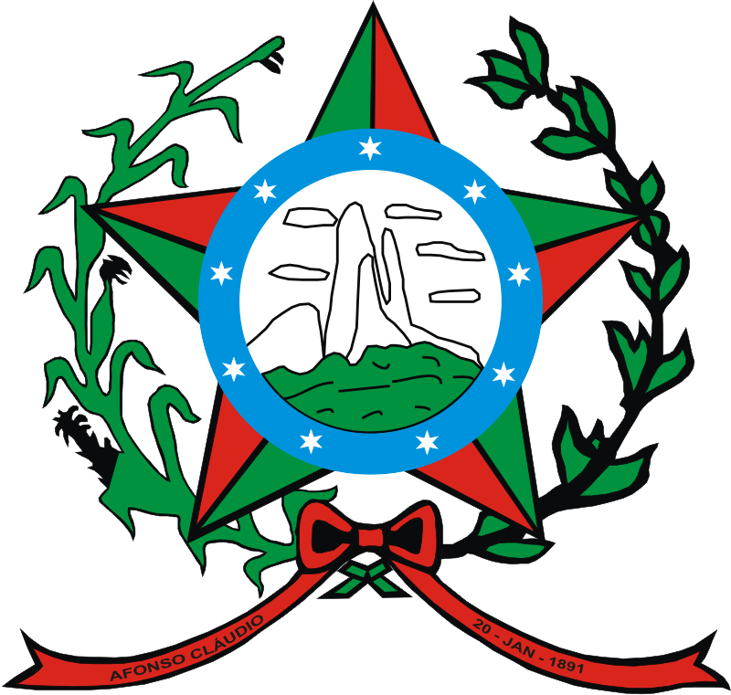 Coats of arms of municipality of Afonso Cláudio, Espírito Santo State, Brazil